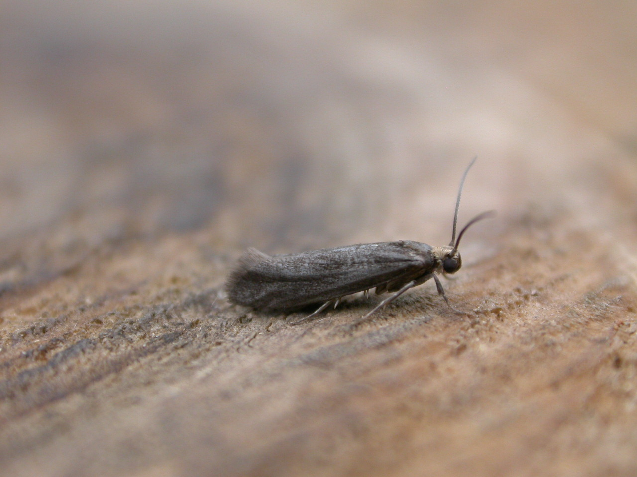 Prays fraxinella